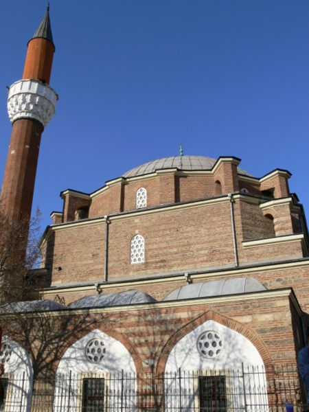 Banya Bashi Mosque, Sofia, Bulgaria